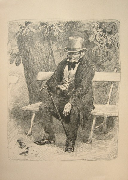 Józef Rapacki: Sitting on a bank